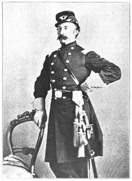 Colonel Oskar Malmborg of the 55th Illinois Volunteer Regiment, from the History of the Swedes of Illinois, Part I, page 652, edited by Ernst Wilhelm Olson, Martin J. Engberg, Anders Schön, published in 1908